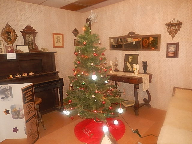 I took photo with Nikon camera of Mendoza Trail Museum in McCamey, TX.